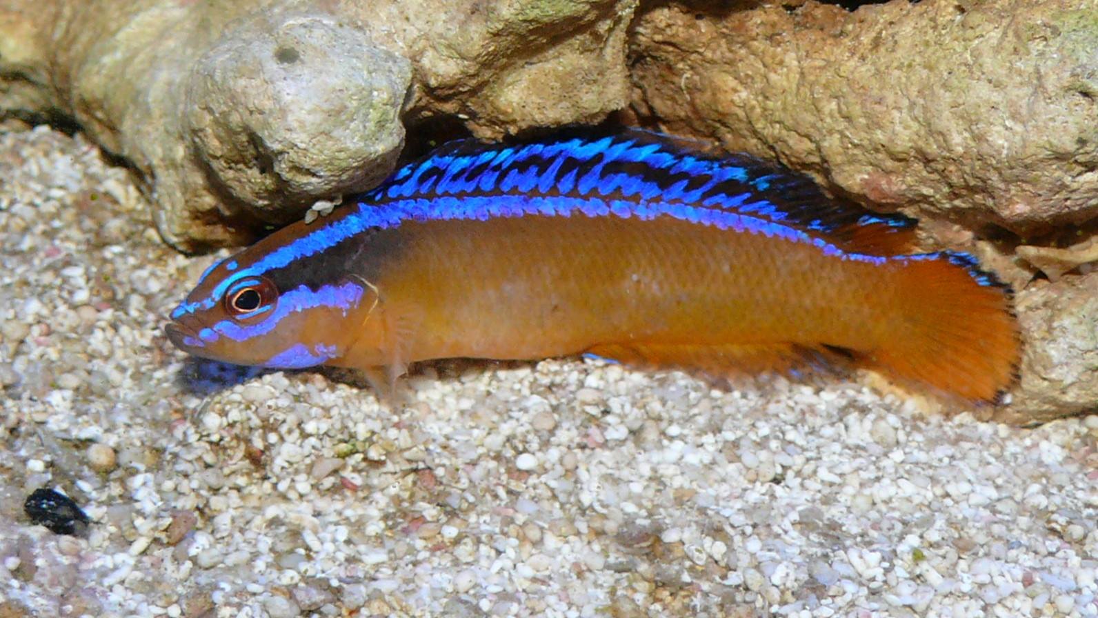 Pseudochromis aldabraensis - Aldabra Zwergbarsch